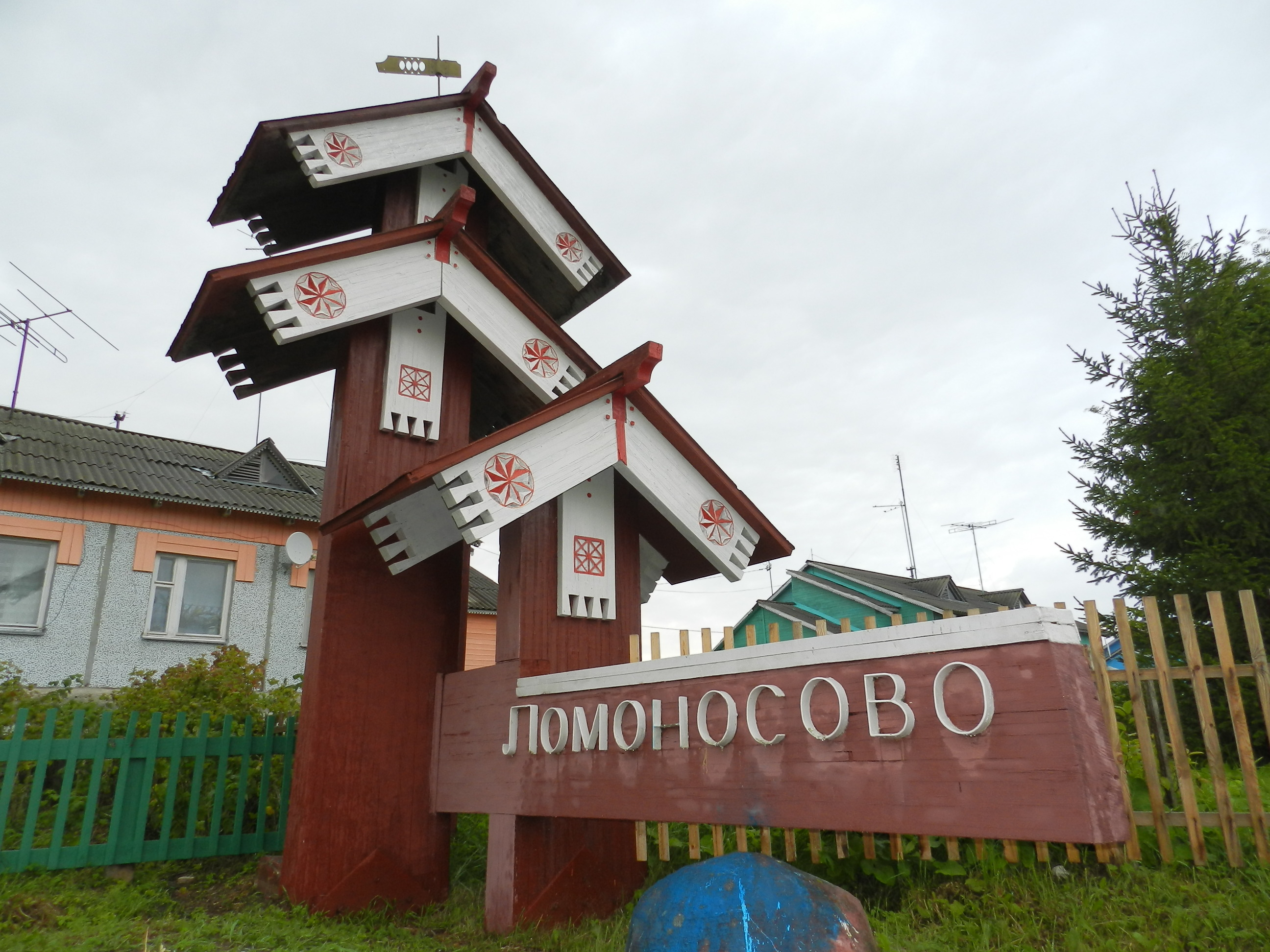 Sign at the entrance to the village Lomonosovo